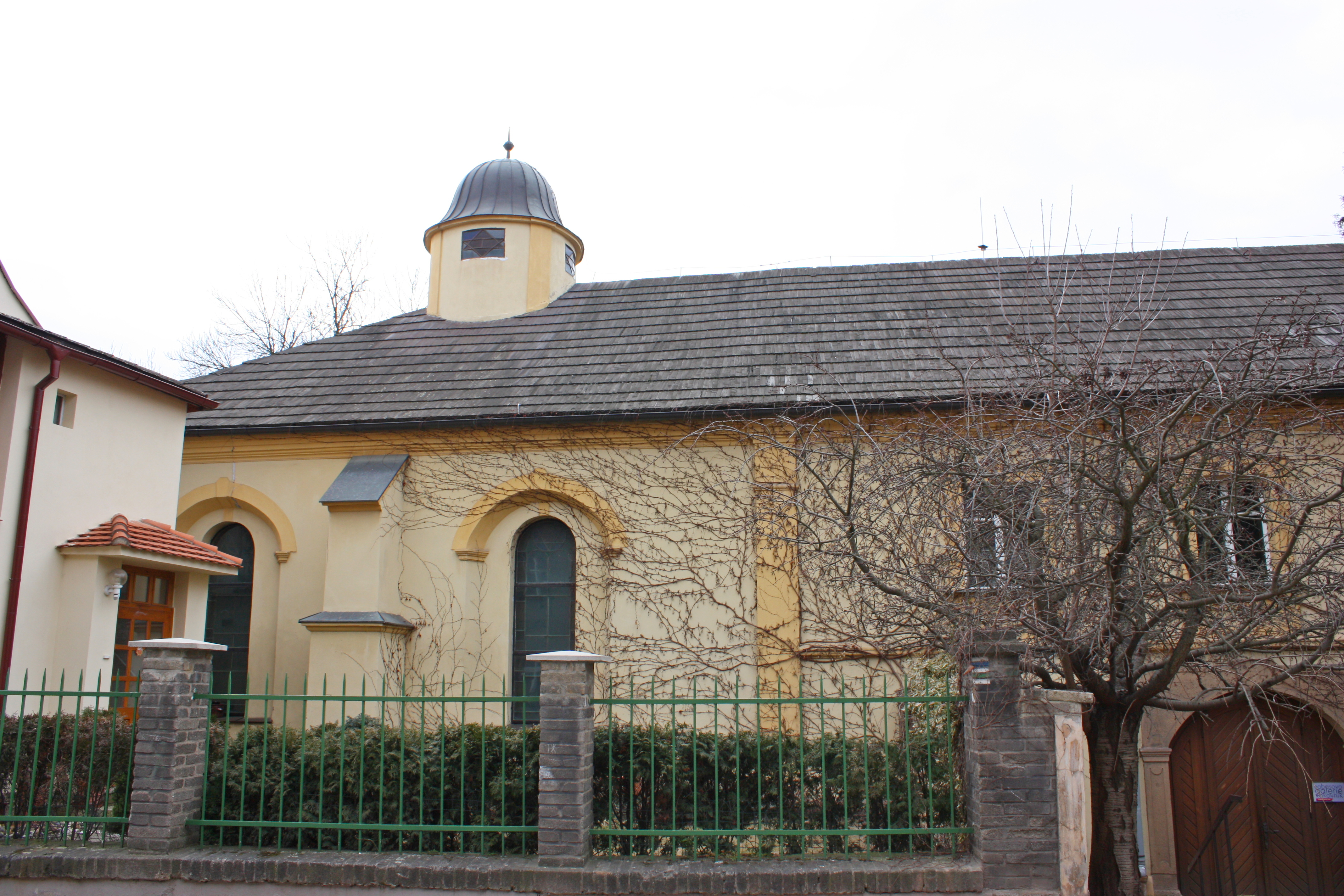 Synagogue in Rakovník, Central Bohemia.